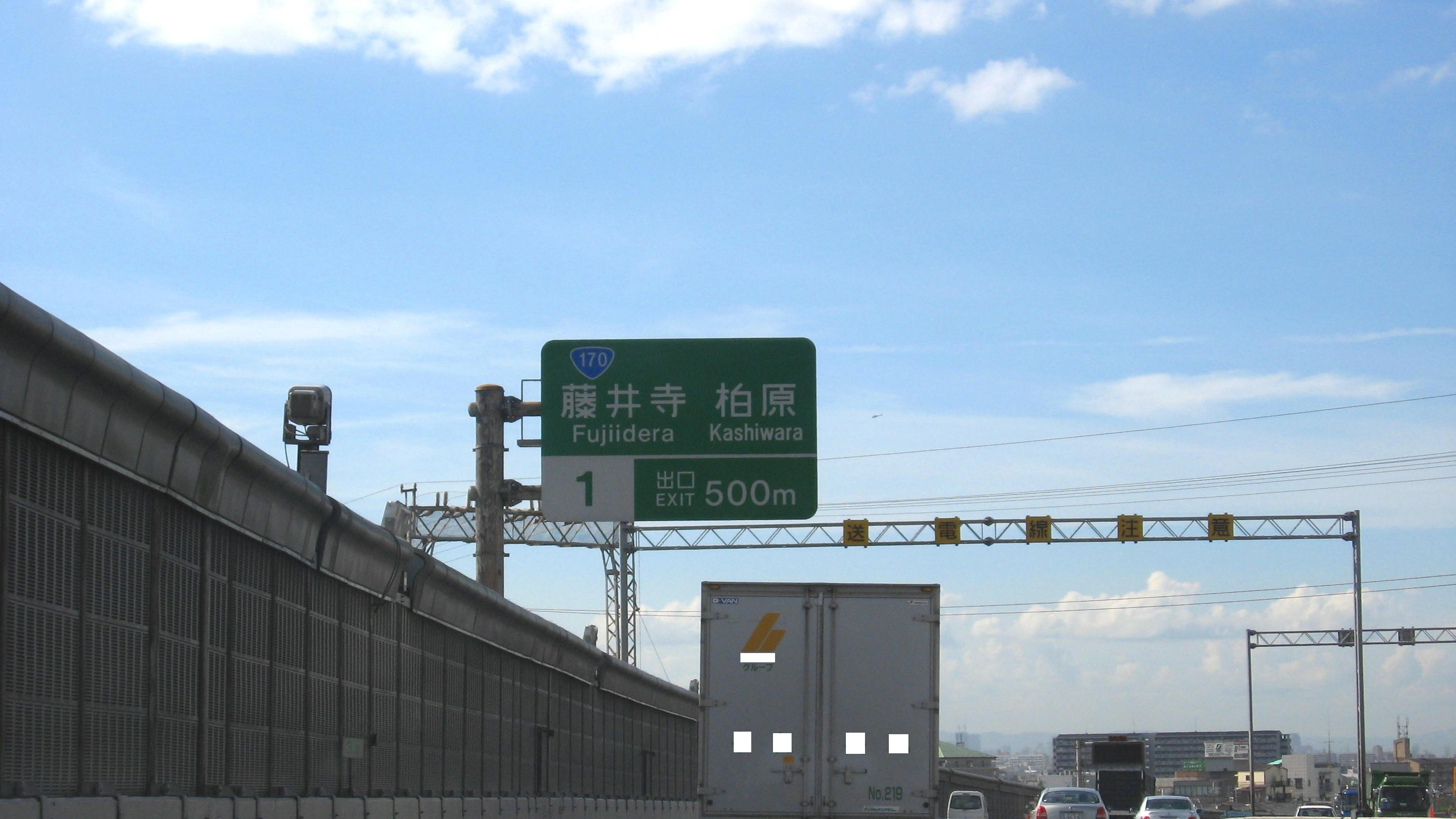 Fujiidera IC (forMatsubara)